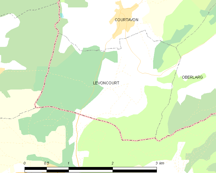 Map of French municipality